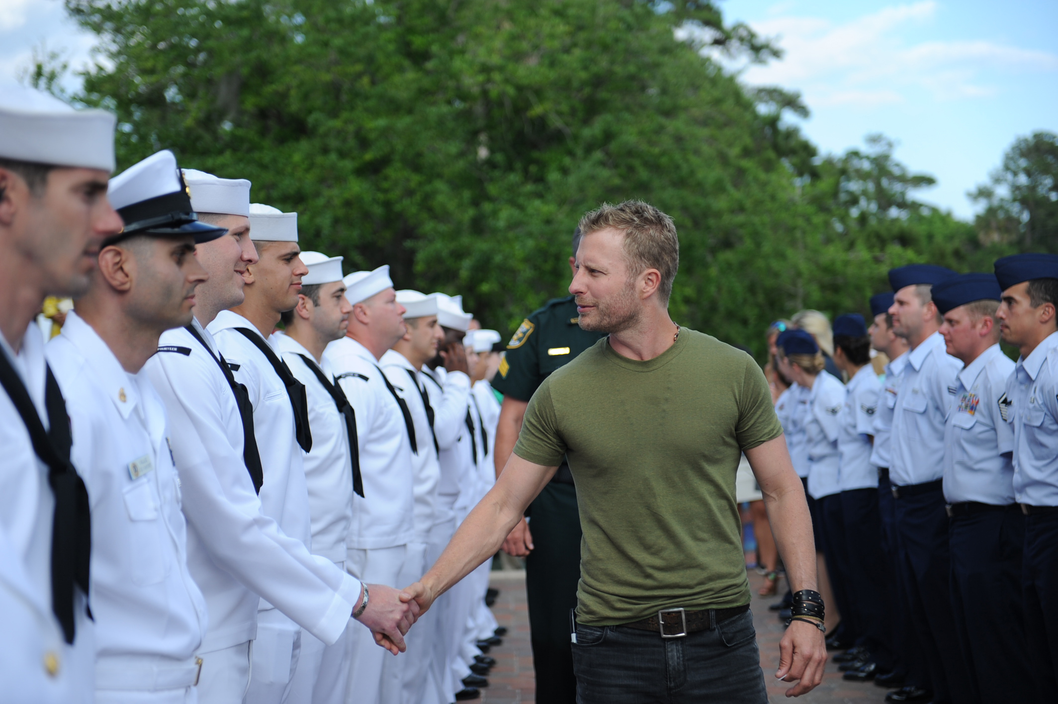 Dierks Bentley meets with service members before his concert for the Players Championship at the Tournament Players Club Sawgrass during Military Appreciation Day in Ponte Vedra Beach, Fla., May 8, 2013. The event was held in honor of service members, veterans, future service members and their families.